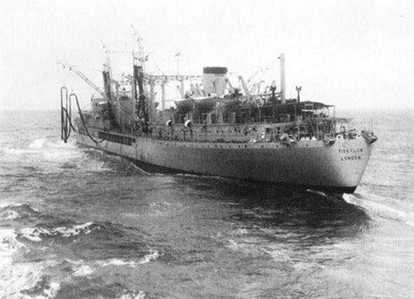 The British Tide-class replenishment oiler RFA Tideflow (A97) underway during NATO exercise Riptide III in the Mediterranean Sea, in August 1962.